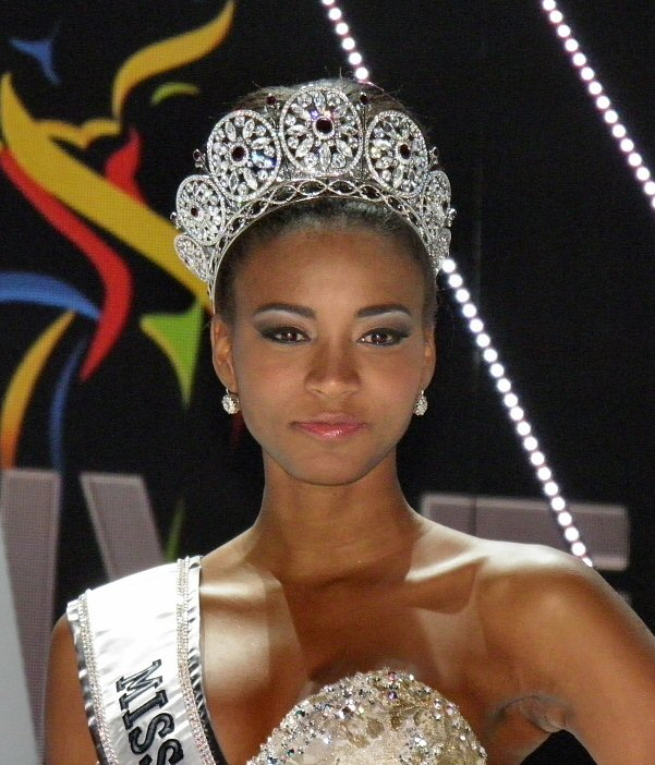 Miss Universe 2011, Leila Lopes, at press conference in Credicard Hall in São Paulo, Brazil, after winning the contest.